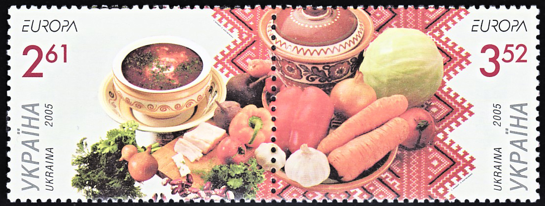 Postage stamps of Ukraine, 2005. Gastronomy. Borsch. Issue on the program Europa.